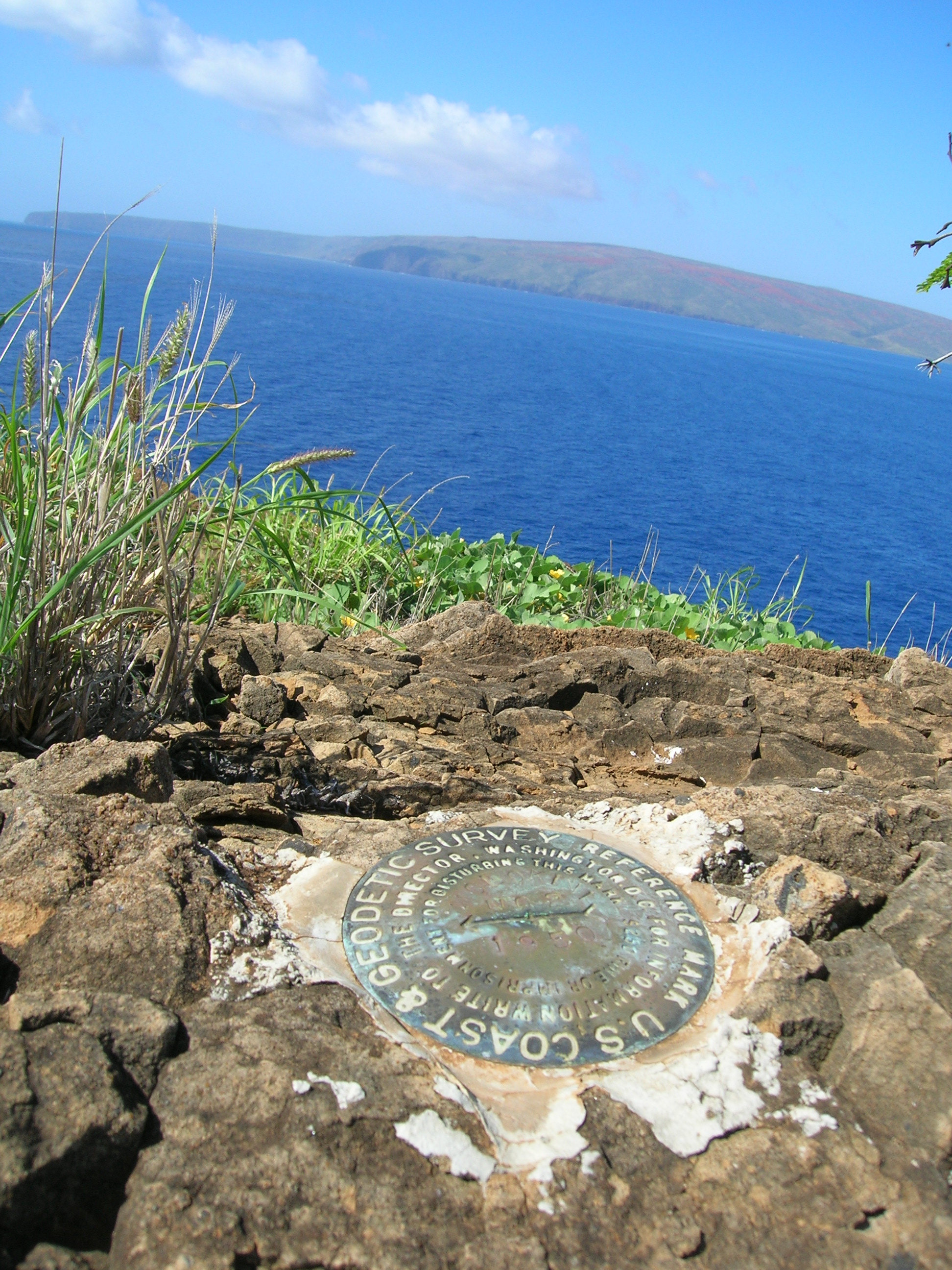 Sida fallax (Habit View benchmark, Molokini islet, Maui County, Hawaii